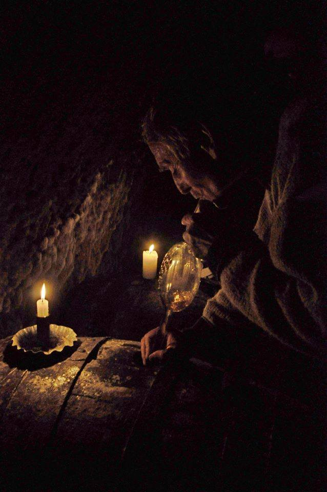 Winemakers from Slovakian Tokaj use wine thief to extract wine from the barrel.